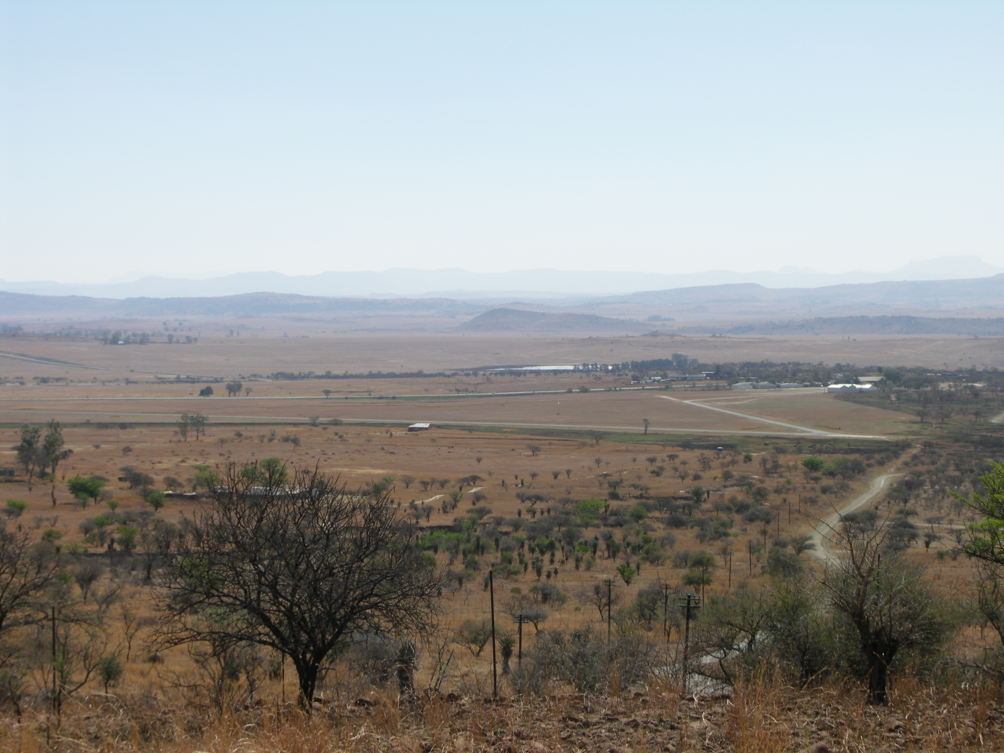 The Ladysmith, KwaZulu-Natal Aerodrome, (IATA: LAY, ICAO: FALY). Photo taken from Platrand.